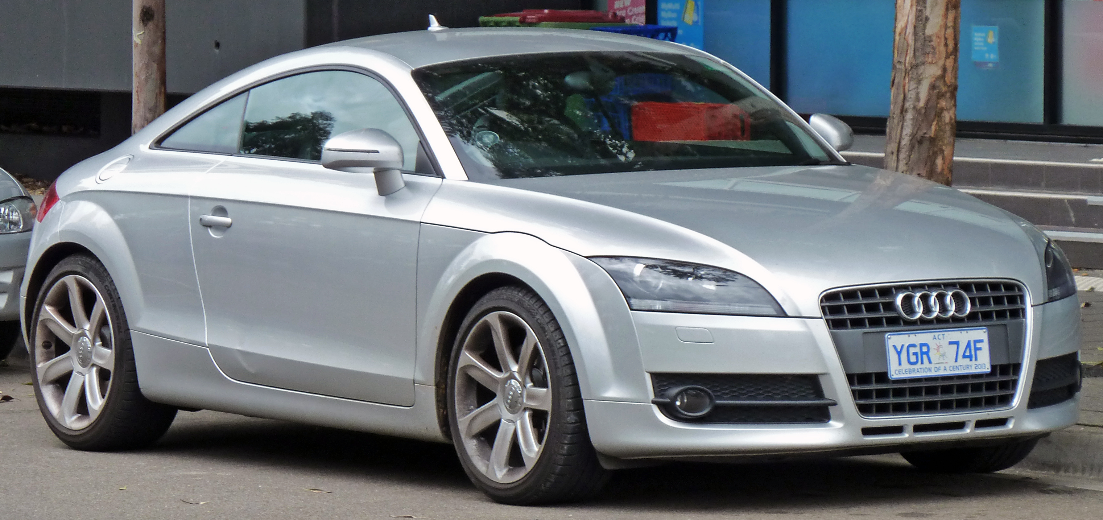 2007 Audi TT (8J) 2.0 TFSI coupe. Photographed in Zetland, New South Wales, Australia. Vehicle registration enquiry results Jurisdiction Australian Capital Territory Registration YGR74F Compliance date 2007-04 Year of manufacture 2007